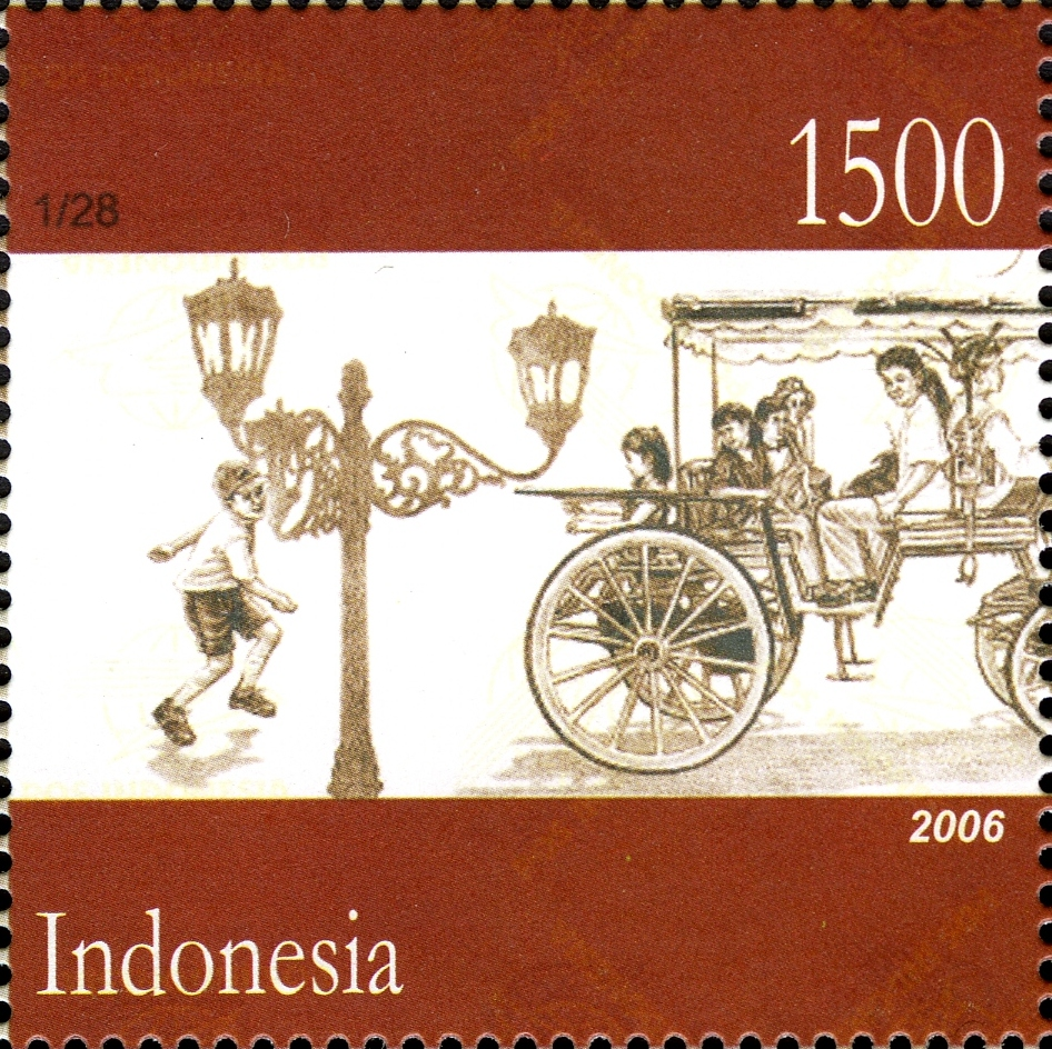 Stamps of Indonesia